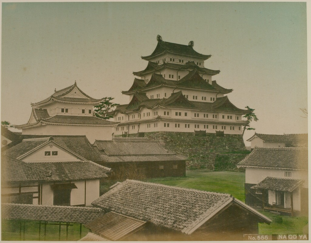 Tamamura KOZABURO - "NAGOYA" - Photographie sur papier albuminé réhaussée de pigments - 24.9 x 19.2 cm - 1979.1.2.